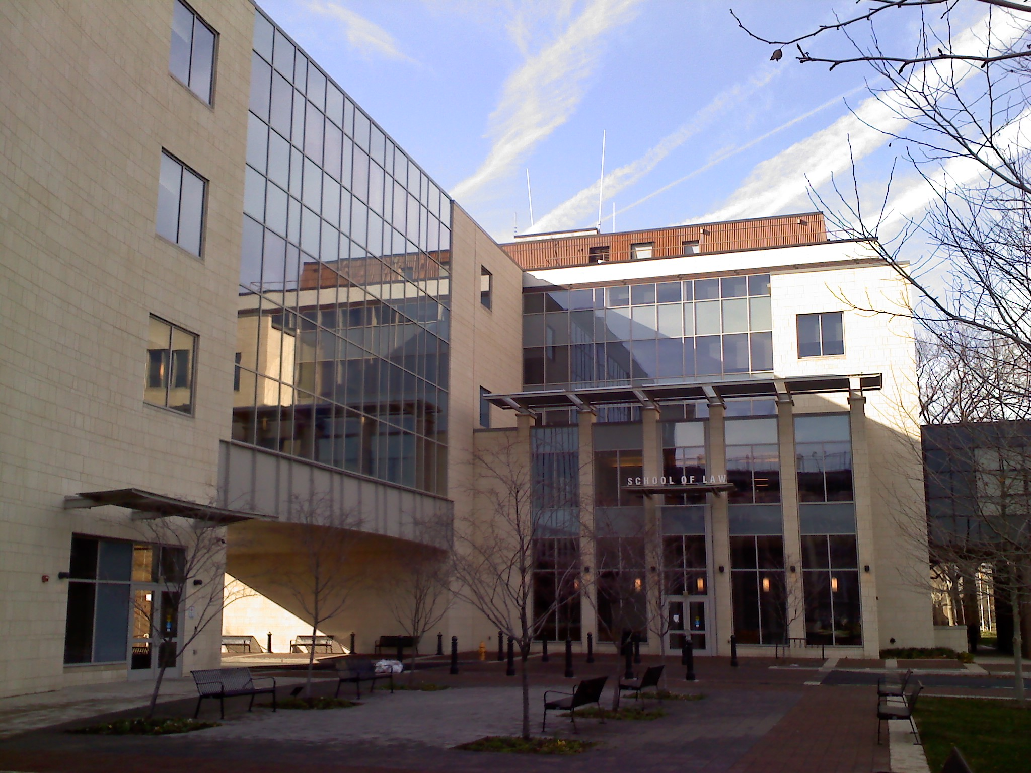 Rutgers-Camden Law School